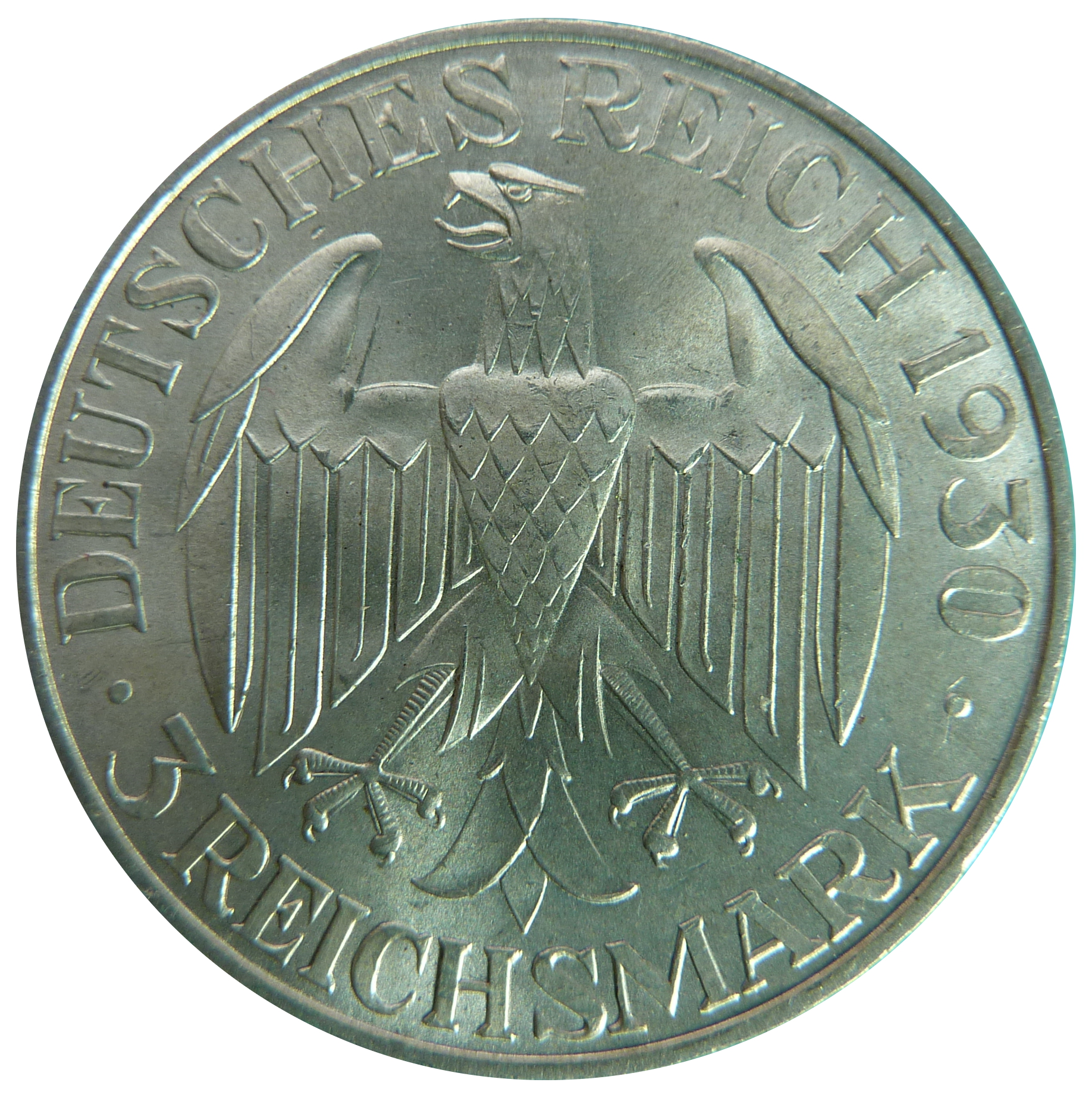 Averse of the commemorative coin "Zeppelin" of the Weimar Republic